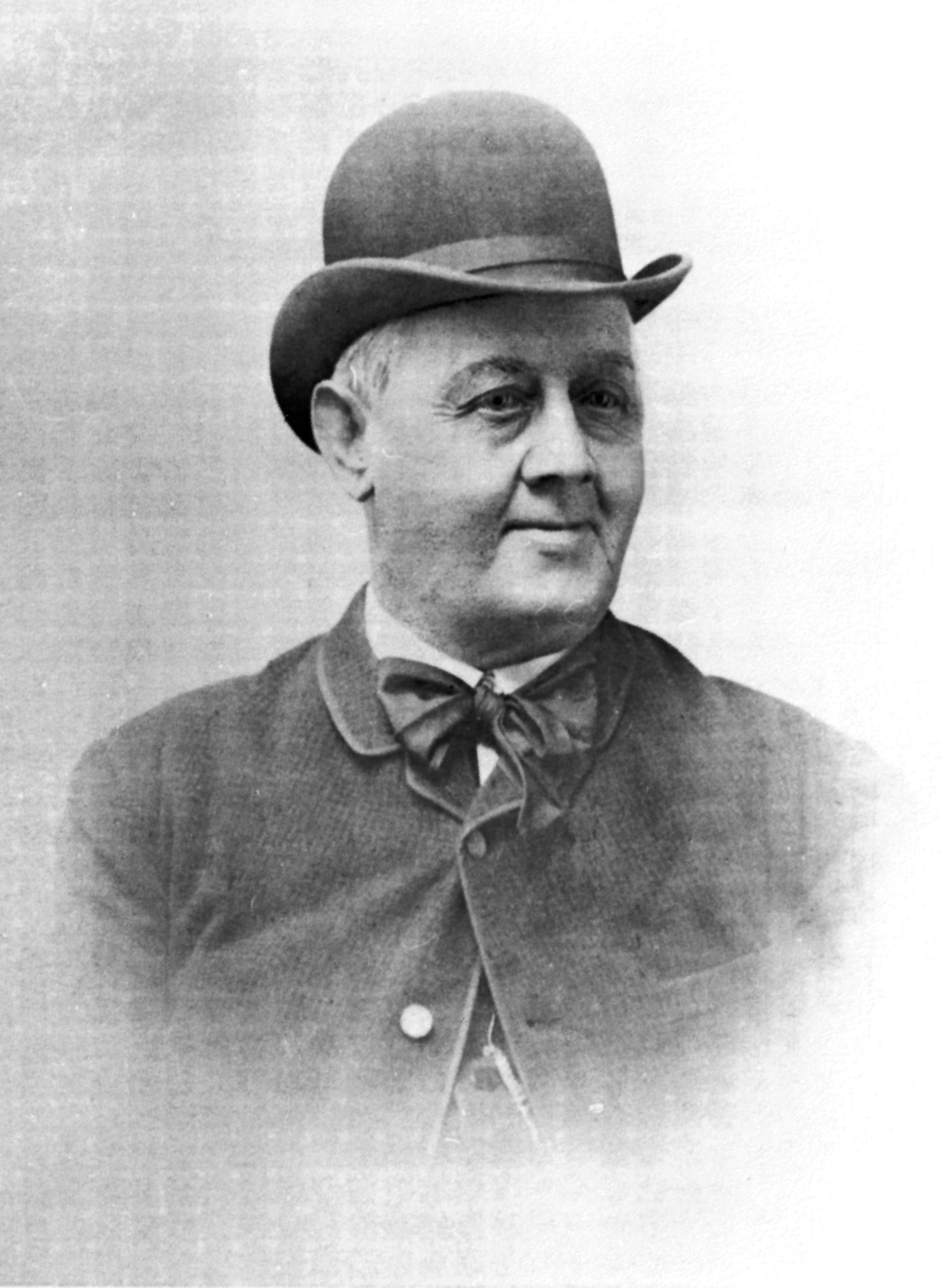 Olaus Johnsen (1830-1892), real estate developer in Christiania.